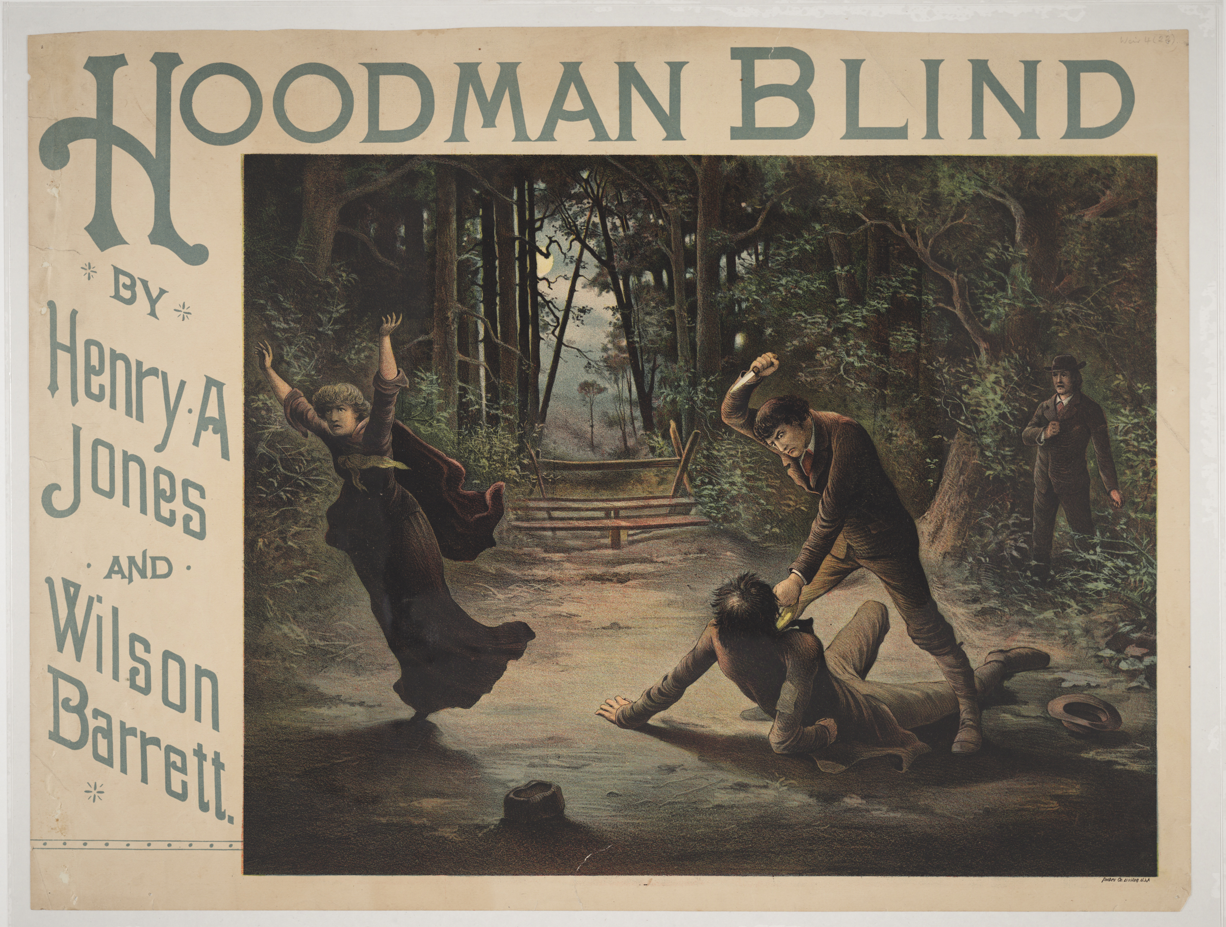 By Henry A. Jones and Wilson Barrett. Printed by Forbes Co., Boston, U.S.A.